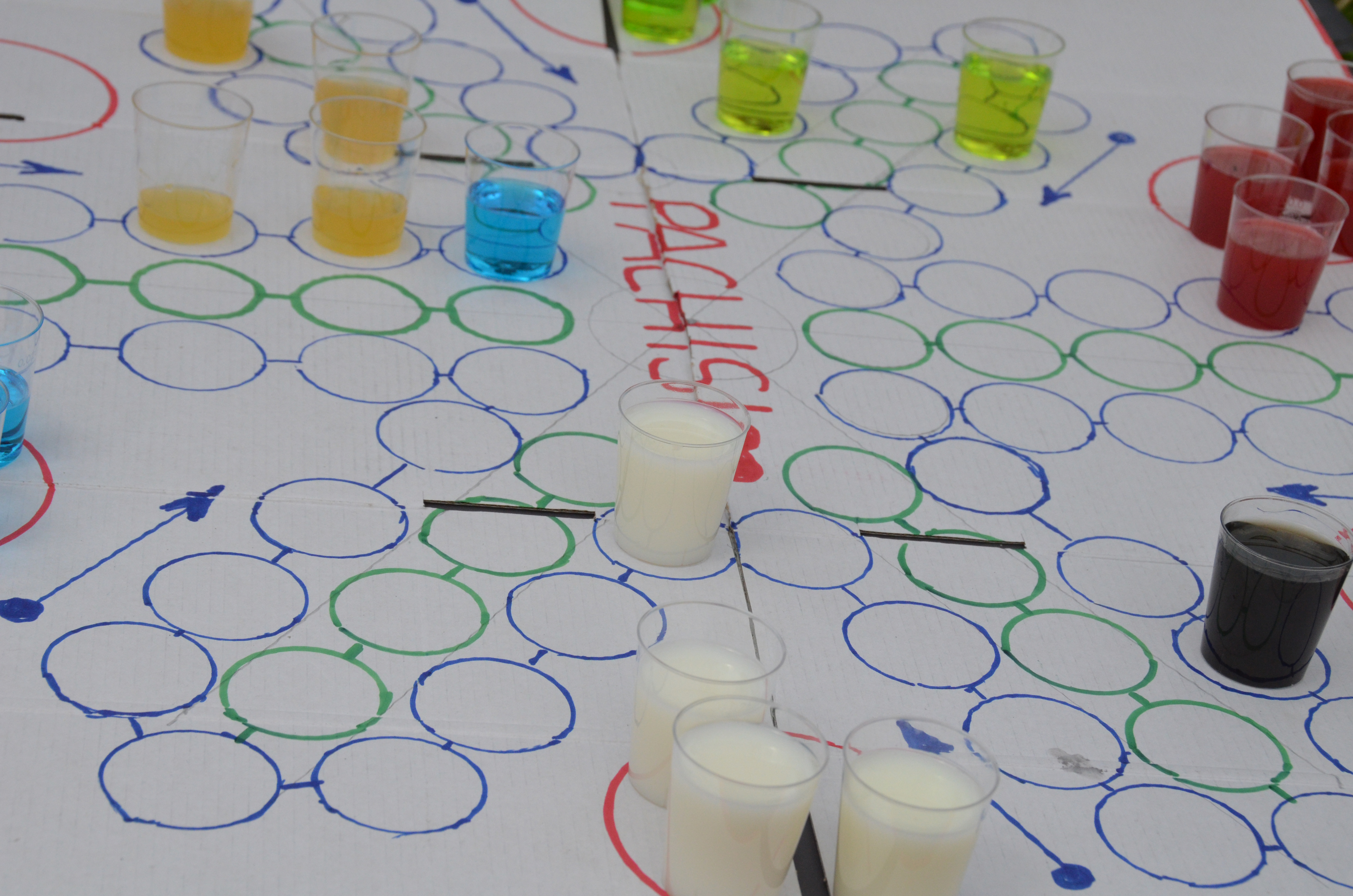 Impressions at Wacken Open Air 2012